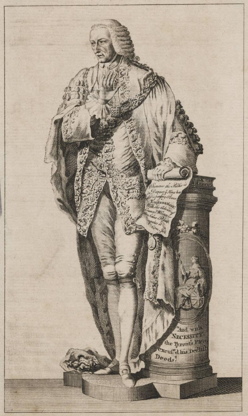 'A late Lord Mayor of London From the Marble Statue of Mr. Moore, lately exhibited in Pall Mall', unattributed etching in the collection of the Beinecke Library, Yale. [The statue of Beckford was erected by the Common Councilmen of London, to thank him for admonishing King George III on 23 May 1770, and soon after this event. The words Beckford directed at the king are inscribed on the paper in the statue's left hand and on the column next to it.]